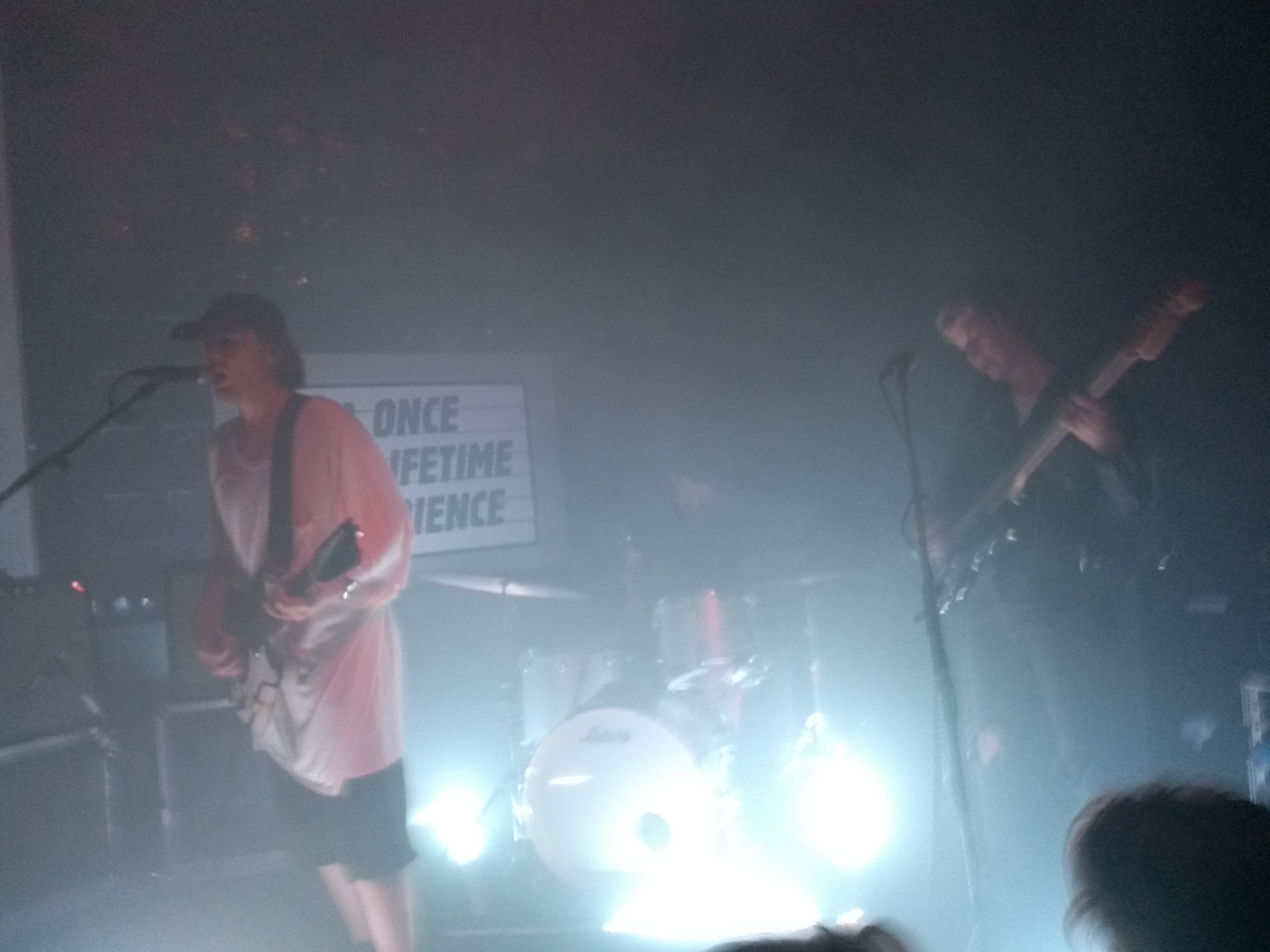 American Indie rock band performing in the Stroomhuis, Eindhoven, Netherlands (October 10, 2019)